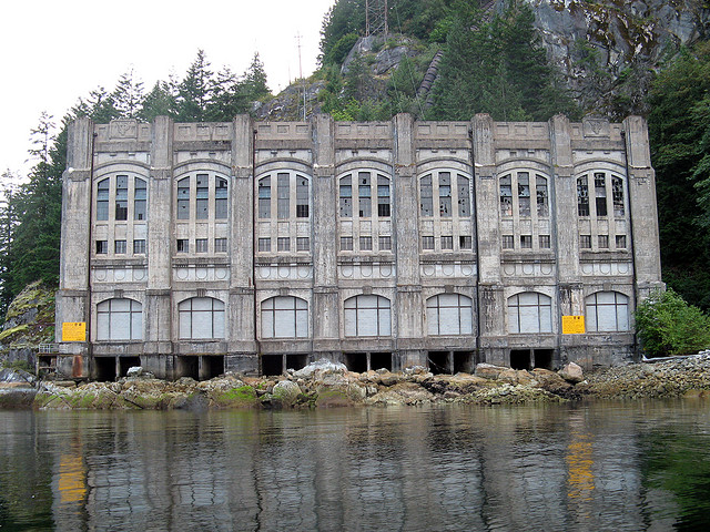 The Buntzen Number 2 generating station on Indian Arm, British Columbia.